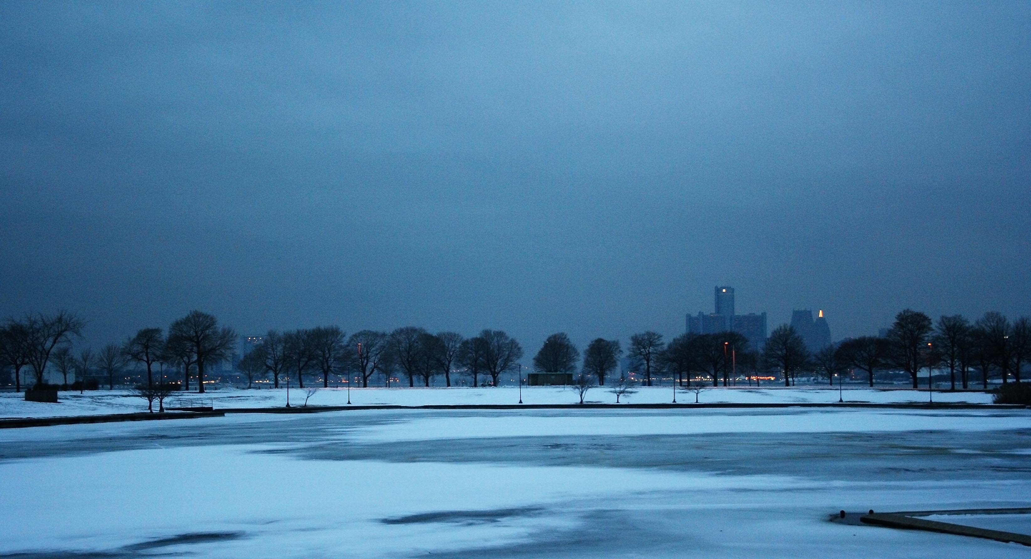 Detroit in Winter as seen from Belle Isle.